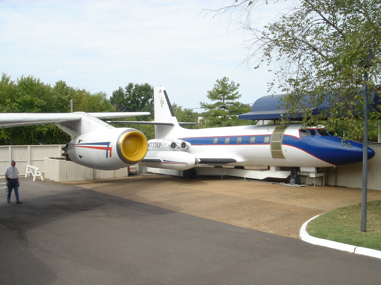 Elvis Presley's Lockheed JetStar on display near Graceland.